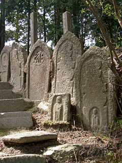 Kohai-Gorinto